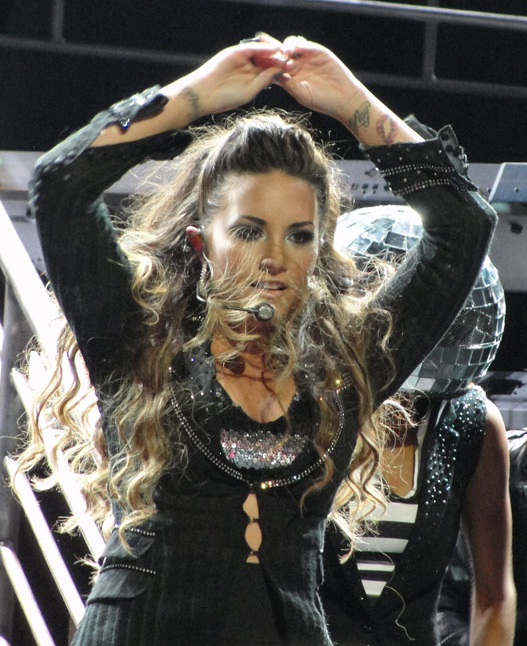 Demi Lovato performing "All Night Long" at Club Nokia in Los Angeles.